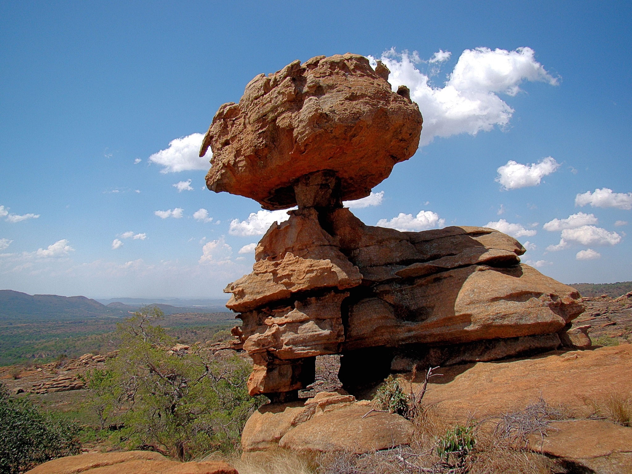 Magaliesberg